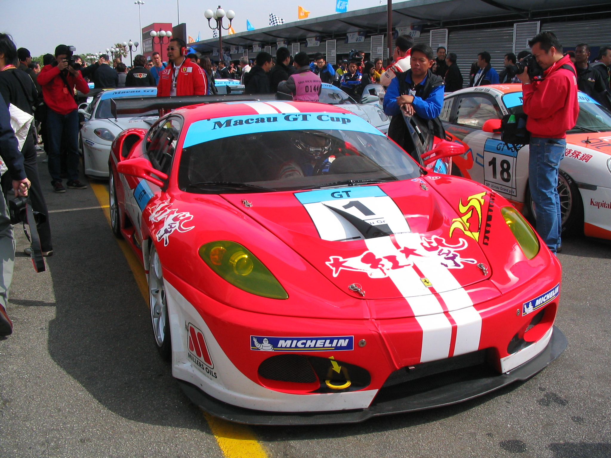 Ferrari F430 GT3 of Paul Poon 2009